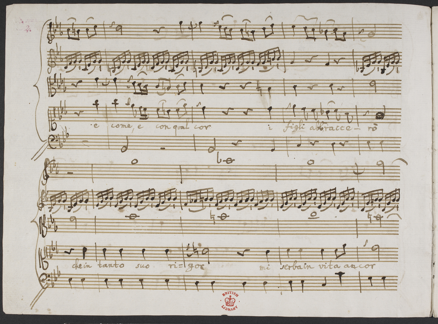 Misero e che farò from Alceste. In the composer's hand.